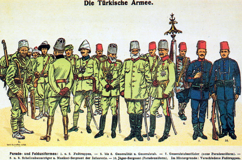 Parade and field uniforms of the Ottoman Army, 1914